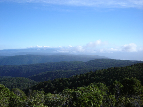 The Cordillera de la Costa (Chilean Coast Range) — seen from Oncol Peak, Los Ríos Region.